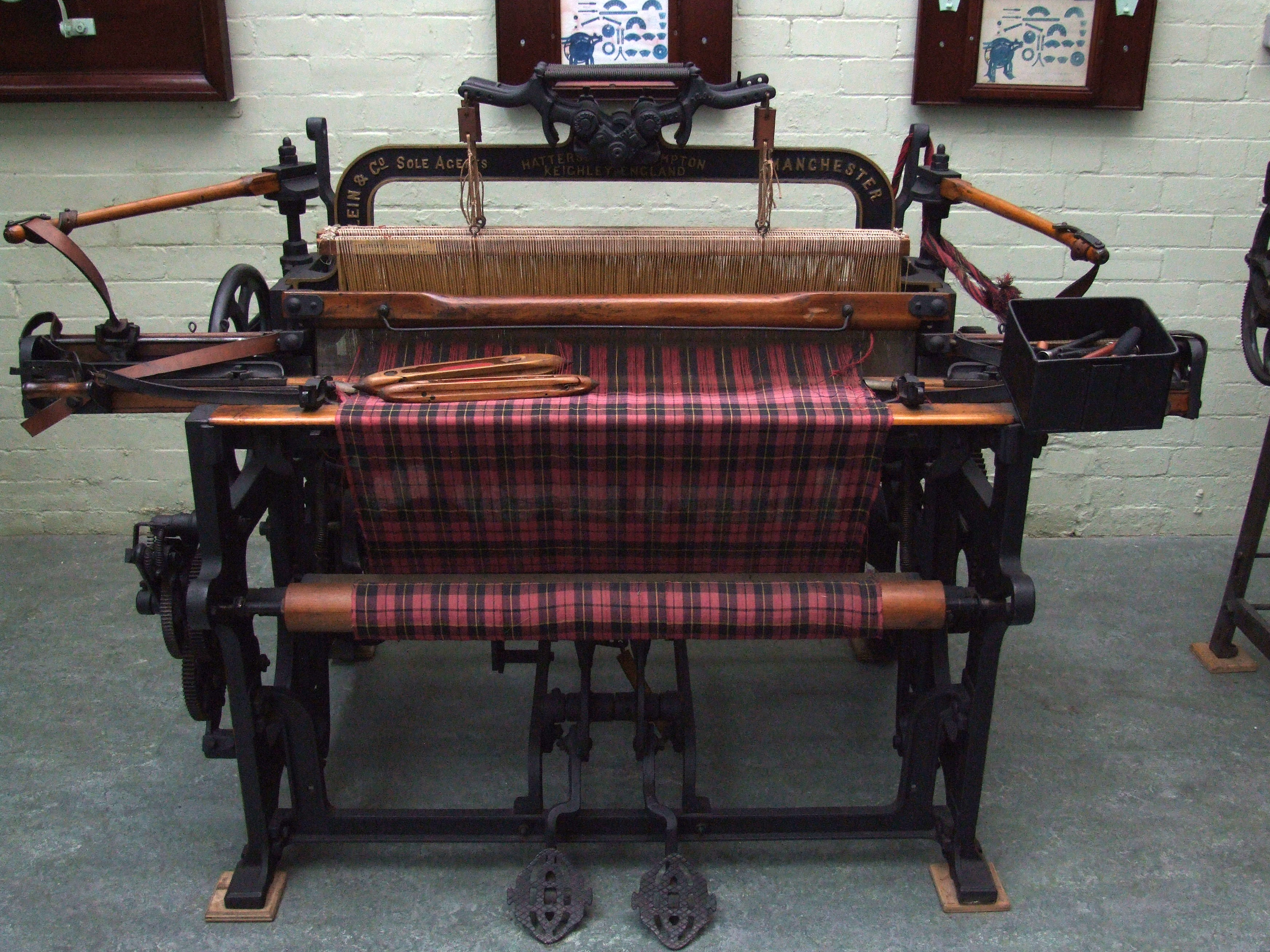 Queen Street Mill in Harle Syke, a suburb to the north-east of Burnley, Lancashire, was built in 1894 for the Queen Street Manufacturing Company. It closed on 12 March 1982 and was mothballed, but was subsequently taken over by Burnley Borough Council and used as a museum. In the 1990s ownership passed to Lancashire Museums. Unique in being the world's only surviving steam-driven weaving shed.